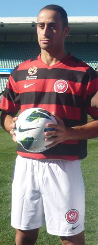 Tarek Elrich At Western Sydney Wanderers Launch, taken on behalf of